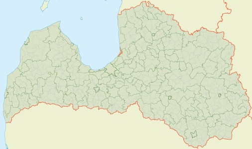 Location of Saulkrasti Parish in Latvia